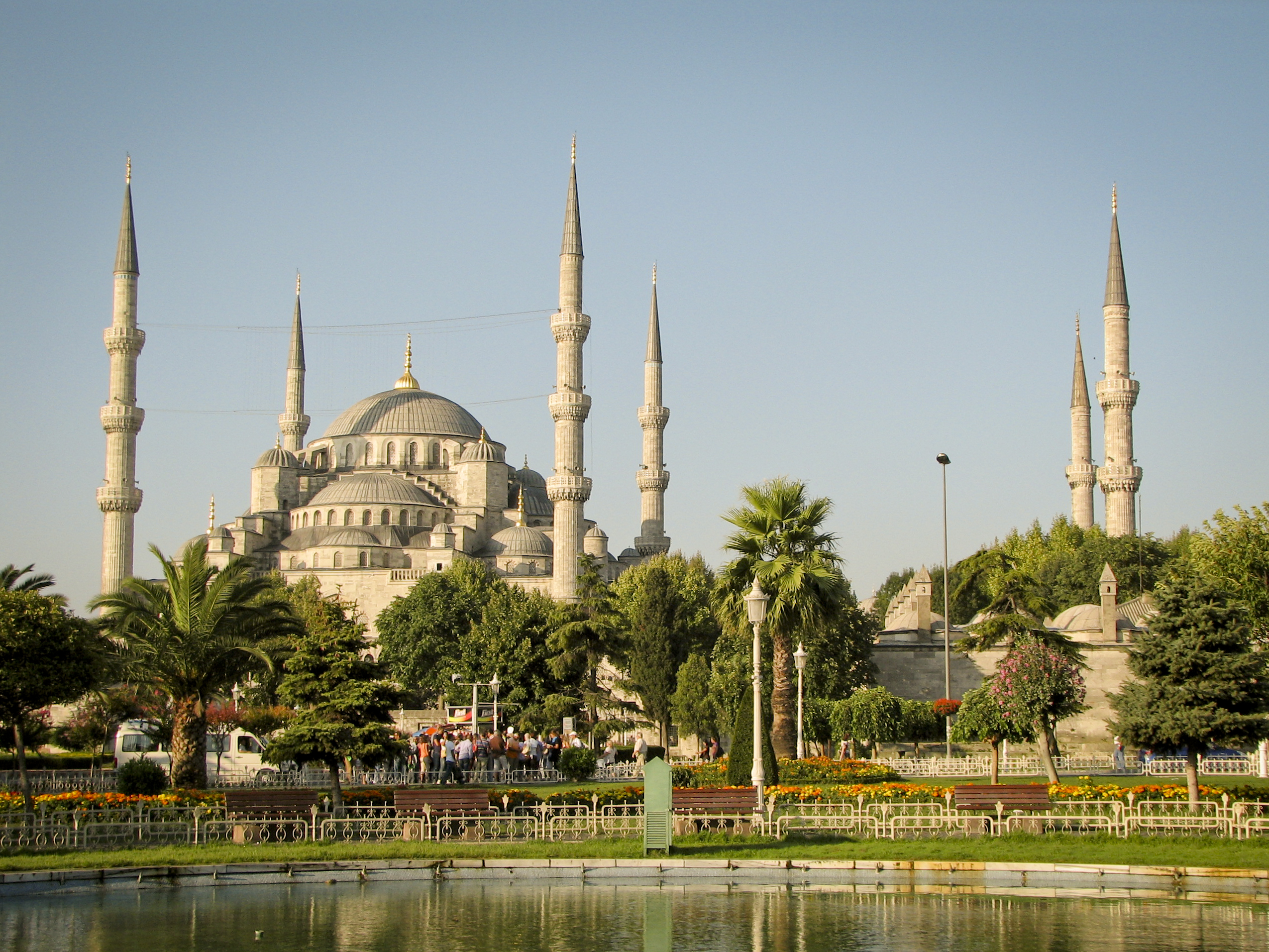 Exterior of Sultan Ahmed I Mosque - Istanbul.